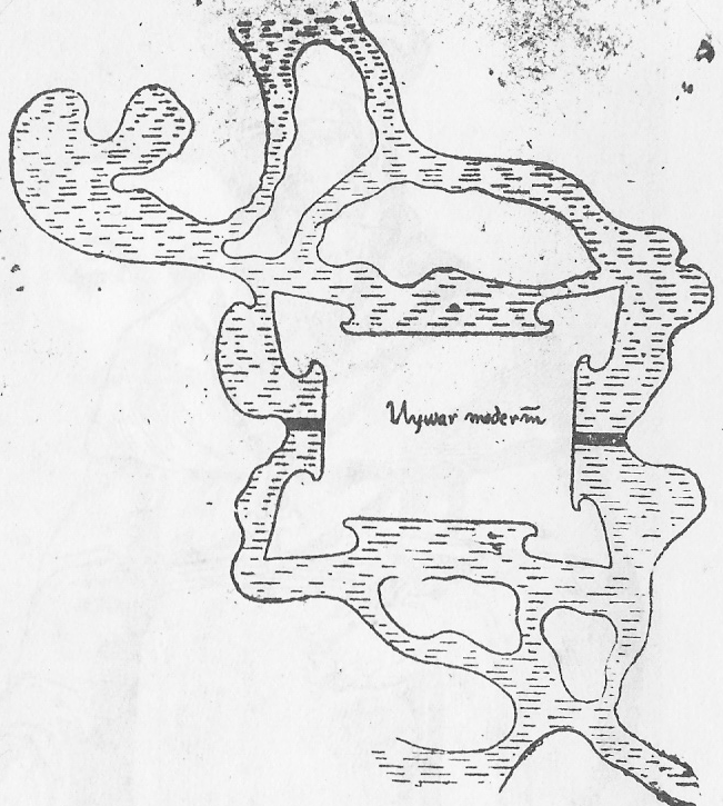 The smaller castle of Neuhausel (Nové Zámky, Érsekújvár) called Oláhújvár